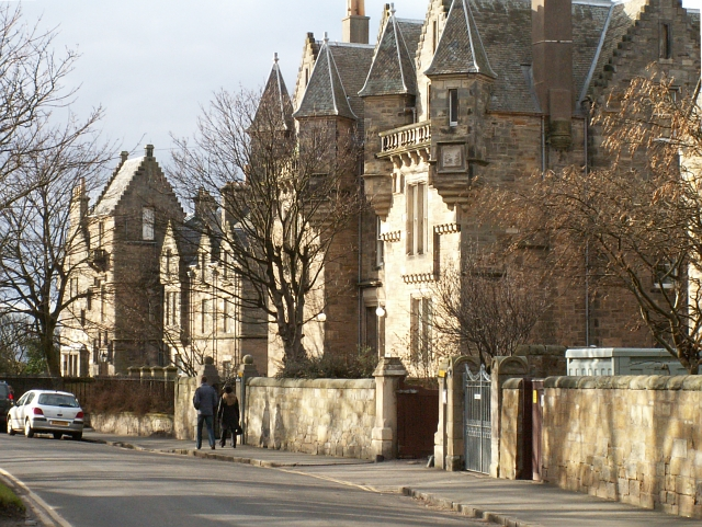 The Scores, St Andrews. Fine old buildings on the north side of the Scores